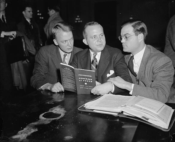 Representatives of American Youth Congress testify at Dies hearing. Washington, D.C., Nov. 30, 1939. Three members of the American Youth Congress, left to right: Jack R. McMichael, Chairman of the Congress; William W. Hinckley, former Chairman; and Joseph Cadden, Executive Secretary, testified before the Dies Committee that their organization had not been 'penetrated by communists.' Hinckley revealed that his organization was conducting a nationwide campaign to petition Speaker Bankhead to discontinue the Dies Committee. Rep. Joe Starnes, acting Chairman of the Dies Subcommittee, told the witnesses that neither he nor his committee cared what the witnesses thought of the committee--that he only wanted to hear statements founded on fact